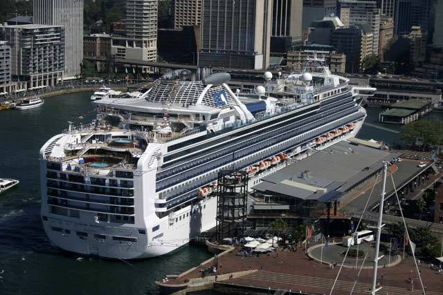 Diamond Princess at Sydney.